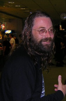 Jeff Minter at Assembly'04